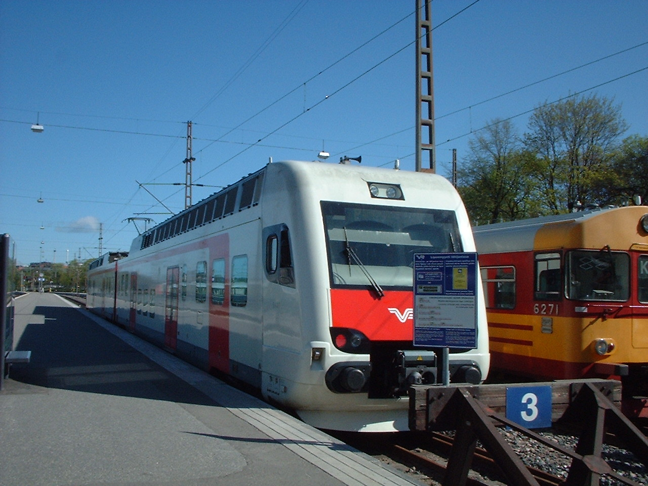 A VR Class Sm4 (on the left) and VR Class Sm2 (no. 6271), on the right) electric multiple units at the Helsinki Central railway station in Helsinki, Finland